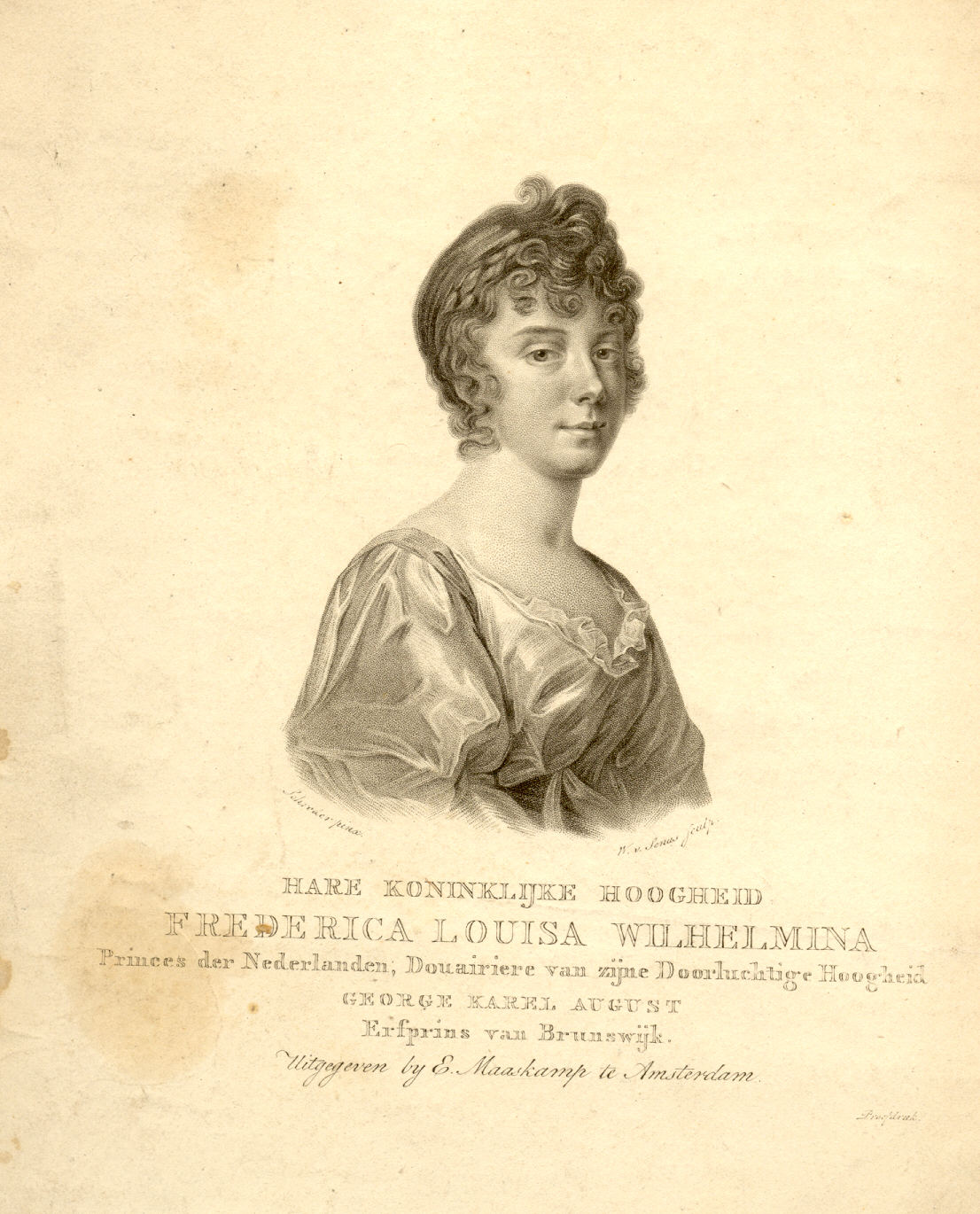 Portrait of Princess Louise of Orange-Nassau (1770-1819), sister of King William l of the Netherlands and married to Karl August duke of Braunschweig Wolffenbuttel. She was the only daughter of Stadtholder William V and princess Wilhelmina.